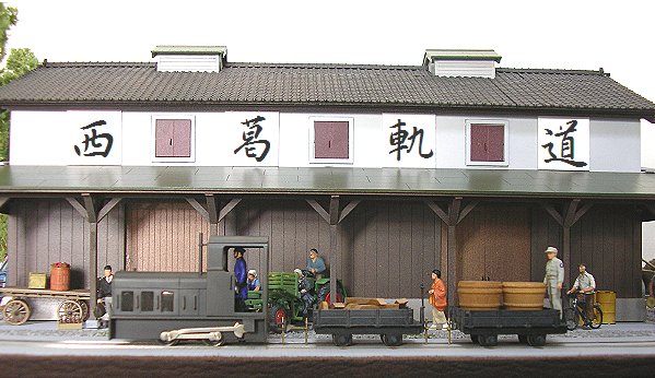 H0e gauge microlayout named Saikatsu Tramway.